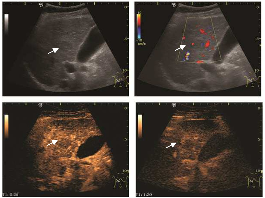 Contrast-enhanced ultrasound of a dysplastic nodule in the liver.